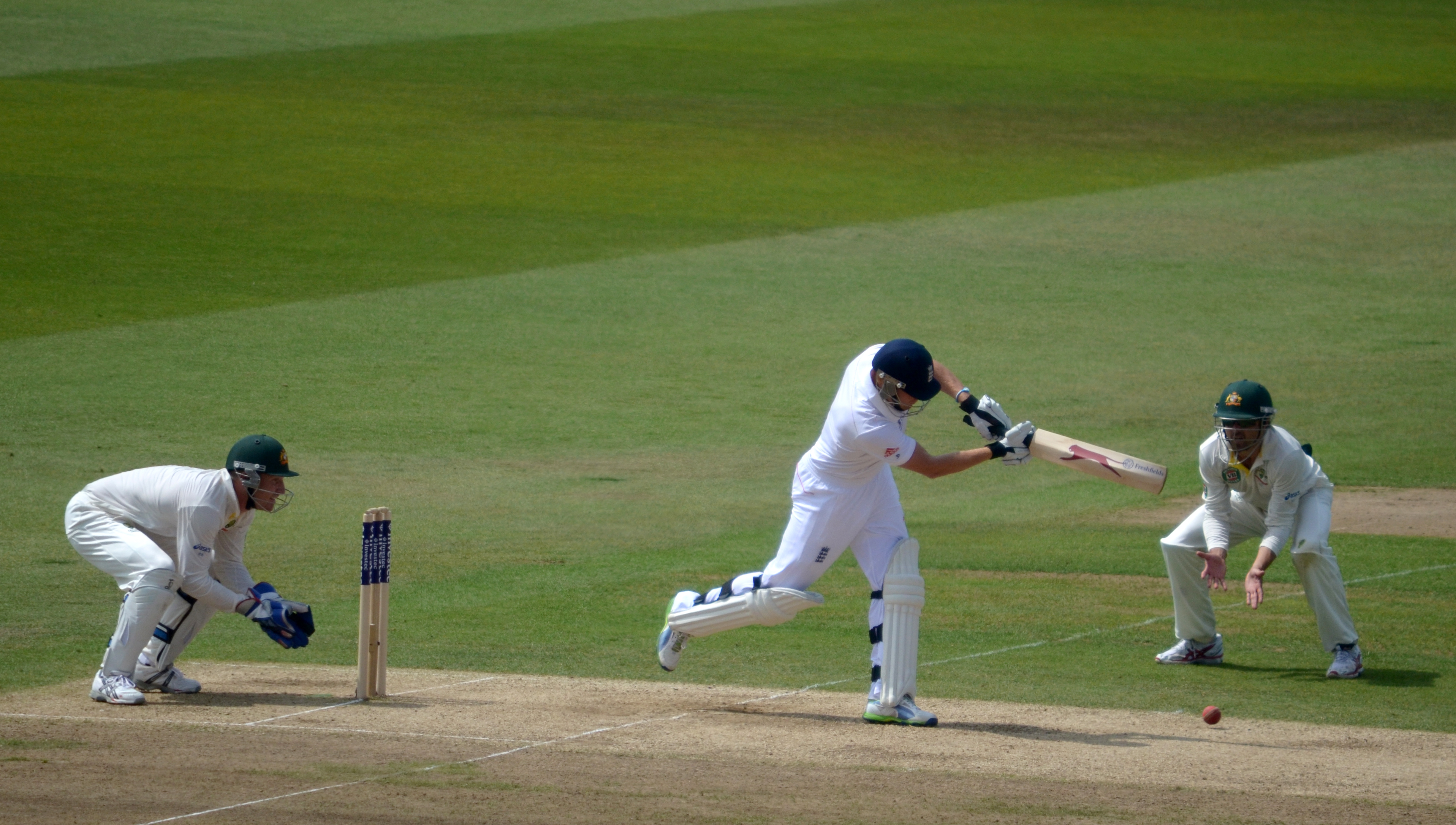 England batsman Jonny Bairstow plays a shot during the 3rd day of the 1st Test of the 2013 England v Australia Ashes series at Trent Bridge, Nottingham. Brad Haddin is keeping wicket.